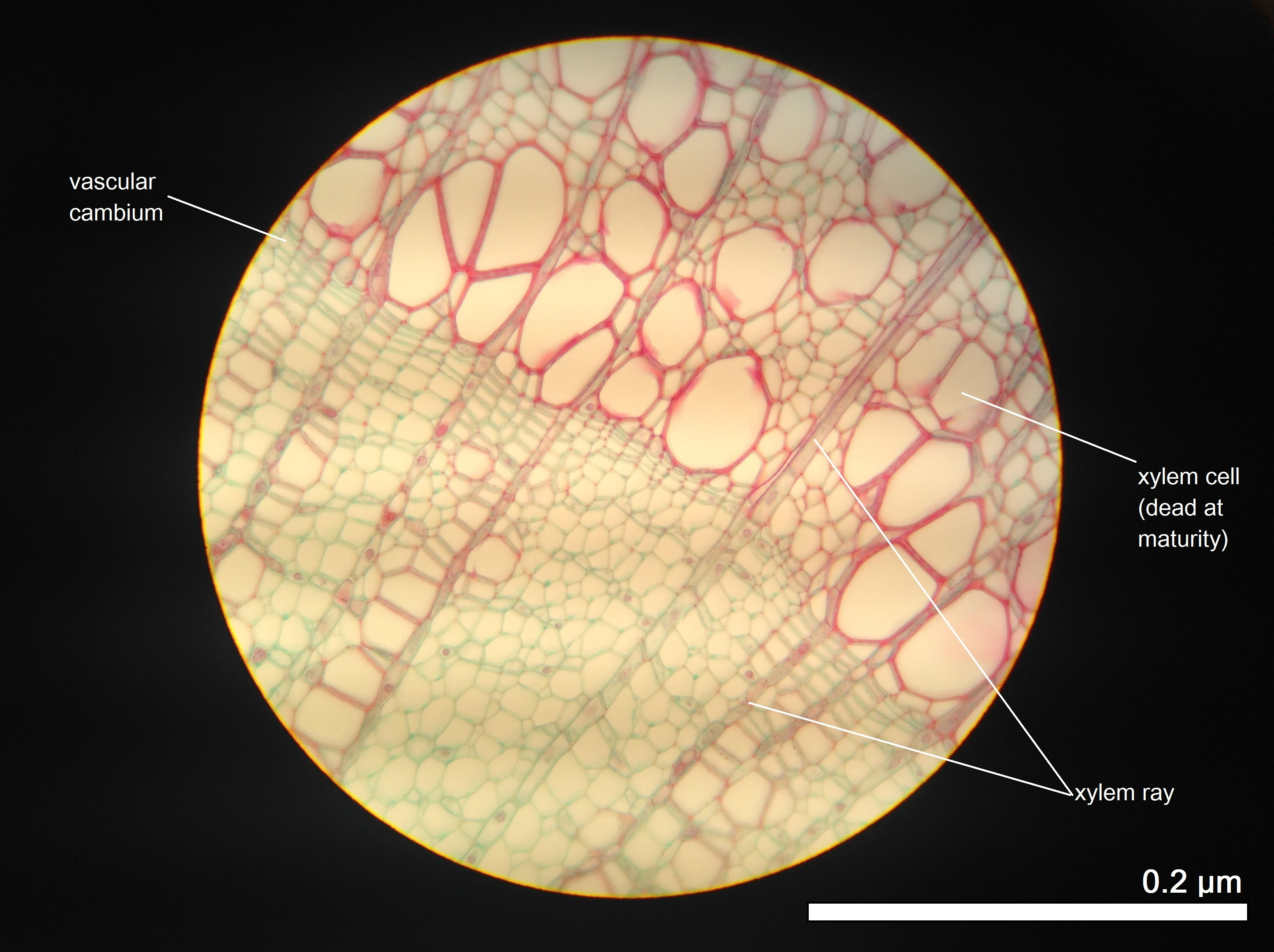 Cross section of 2 year old Tilia Americana, with xylem rays featured.